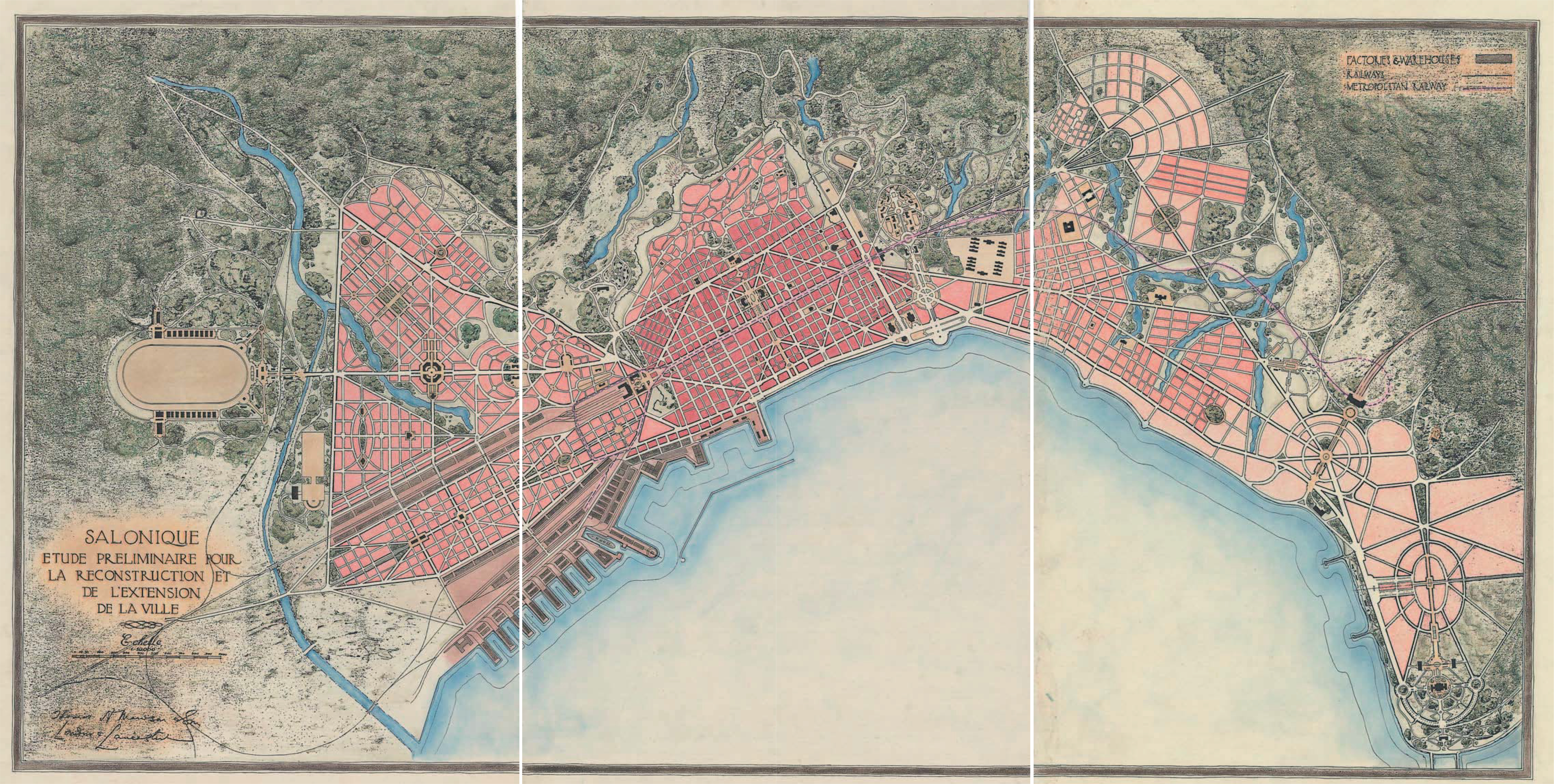 Map of Thessaloniki after the Great Fire of 1917, by architect Thomas Mawson. A metro line (Metropolitan Railway) is clearly shown, running on the same course as the modern Metro line.